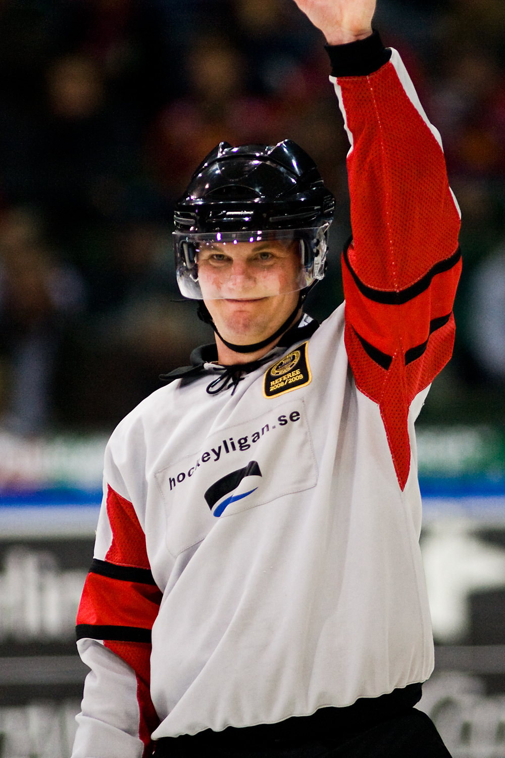 Marcus Vinnerborg professional referee in Elitserien, during a game between Frölunda HC and HV71 (5-3) in Scandinavium, Gothenburg, on October 18, 2008.